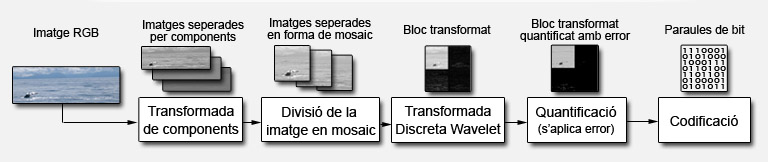 Diagram of the copmression process of the JPEG 2000 compression